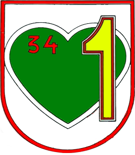 Internal coat of arms of the Bundeswehr (Armed Forces of the Federal Republic of Germany). → Remarks on naming and categorization scheme 1. JaboG 34 "A" Grünherz; 1. Fliegende Staffel Jagdbombergeschwader 34 "Allgäu" Grünherz